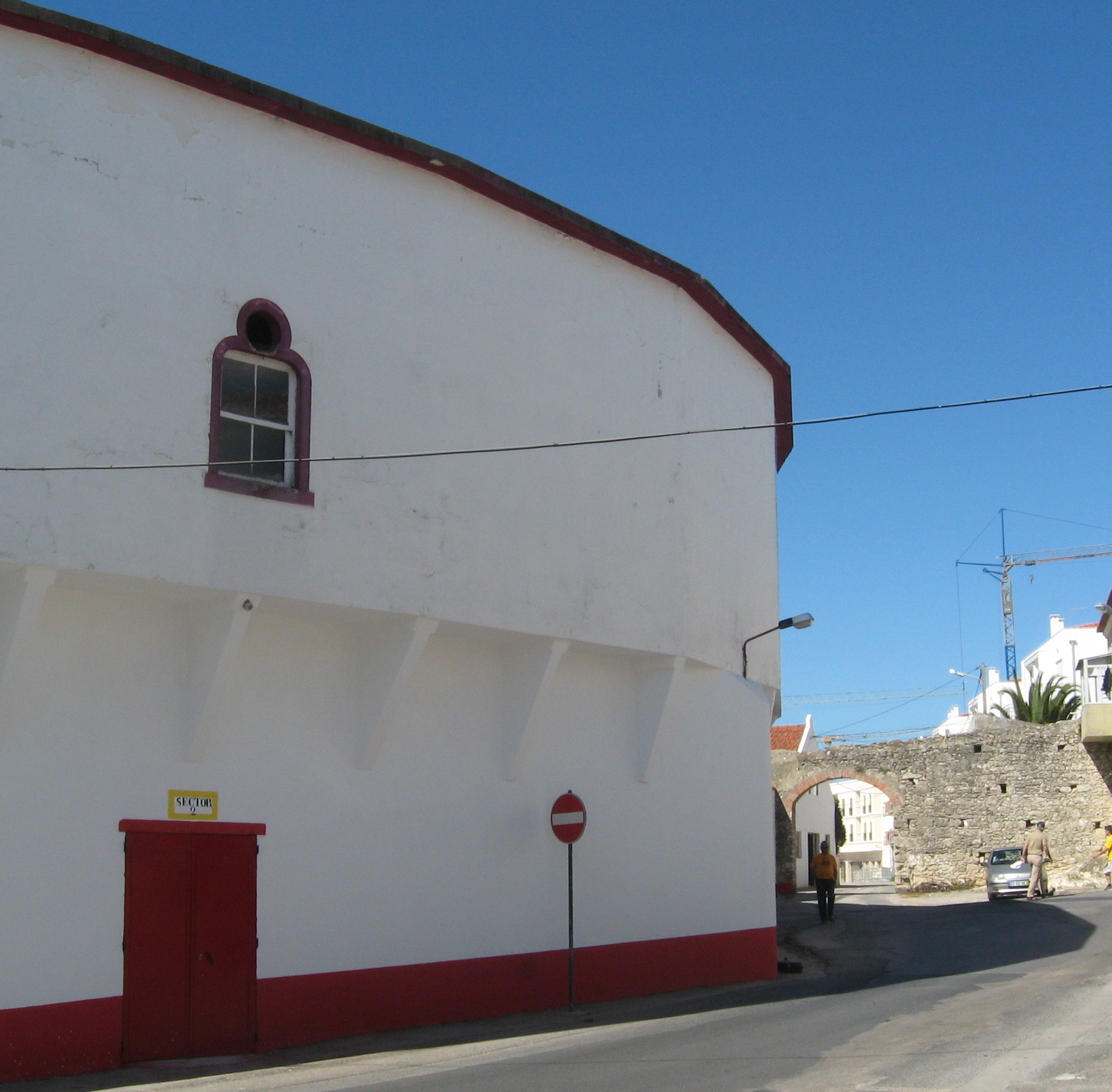 Nazaré, Portugal, Sítio, Santuário de Nossa Senhora da Nazaré, bullring of 1715/end of 19th century, with old Citywall (17th cent.)